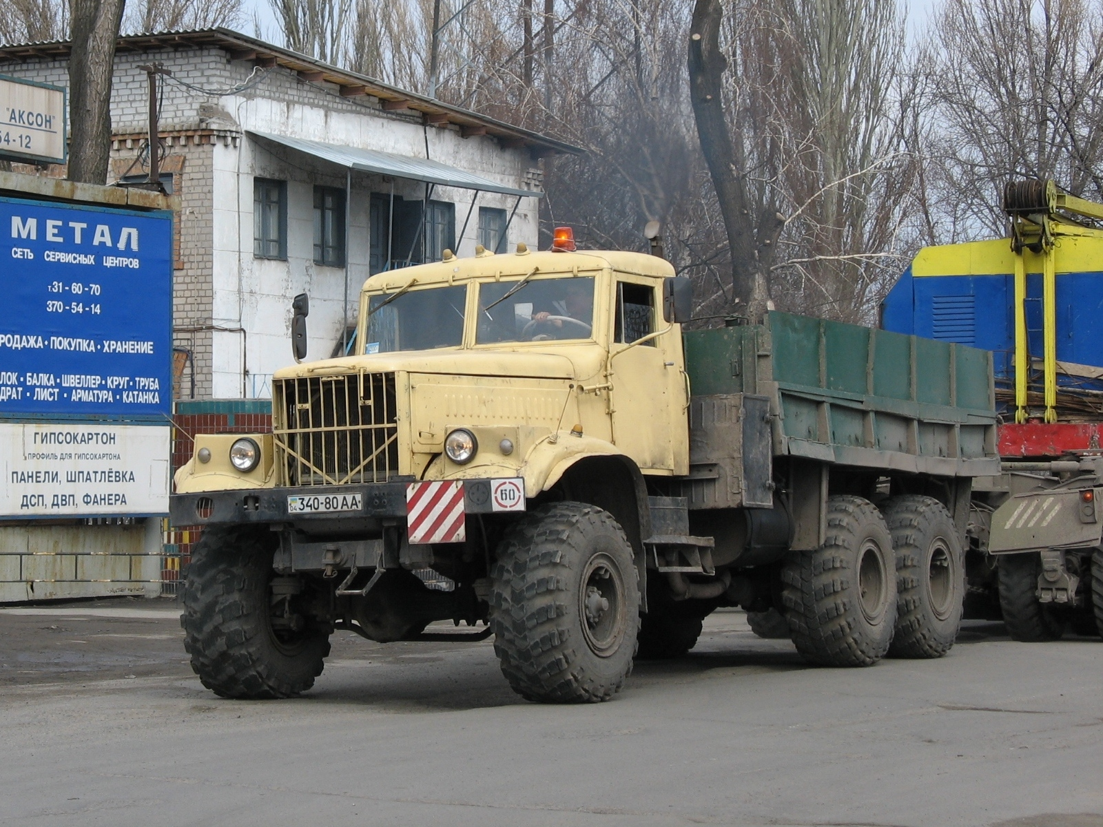 The KrAZ-255 is an off-road truck 6x6 for extreme operations. The 255B1 was manufactured at the KrAZ plant. KrAZ or AvtoKrAZ is a Ukrainian factory that produces trucks and other special-purpose vehicles in Kremenchuk, Ukraine.